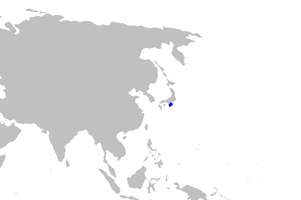 Distribution map for Oxynotus japonicus